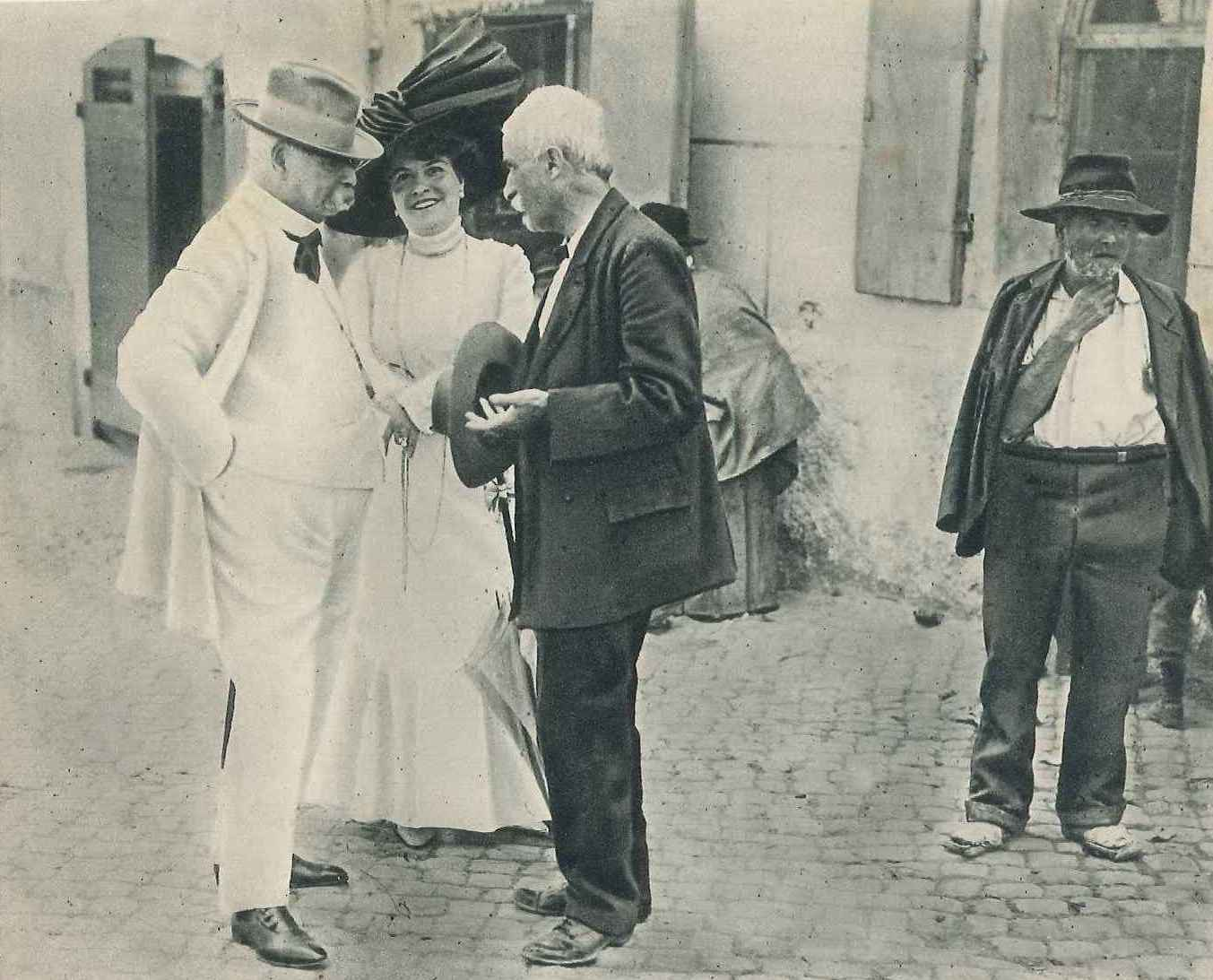 Guido Baccelli (with his niece Elena) consulted on the street by a farmer, from: L'illustrazione del medico, marzo 1938, n.46, p. 3